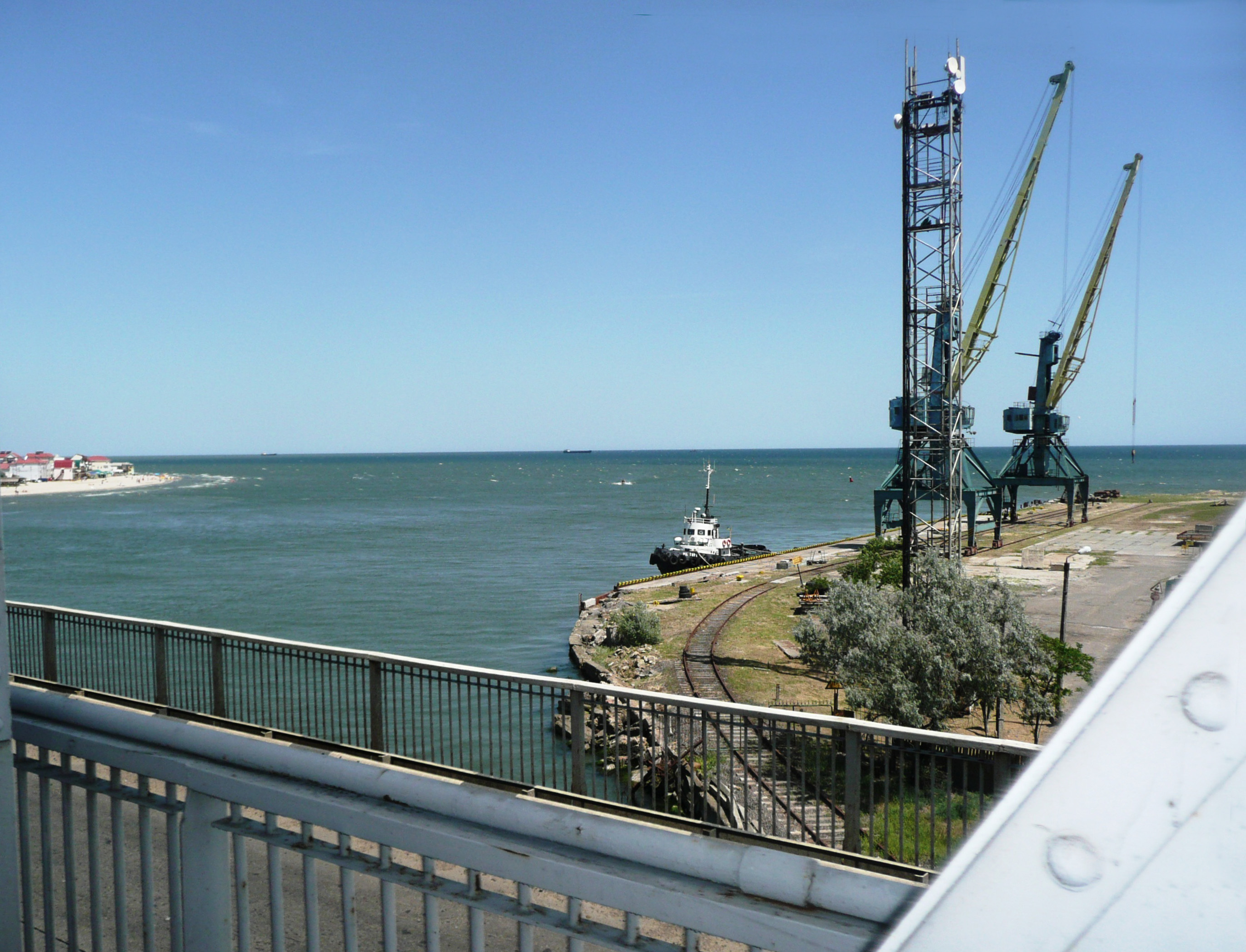 Dniester-Tsaregradsky duct (Zatoka, Odessa region, Ukraine)